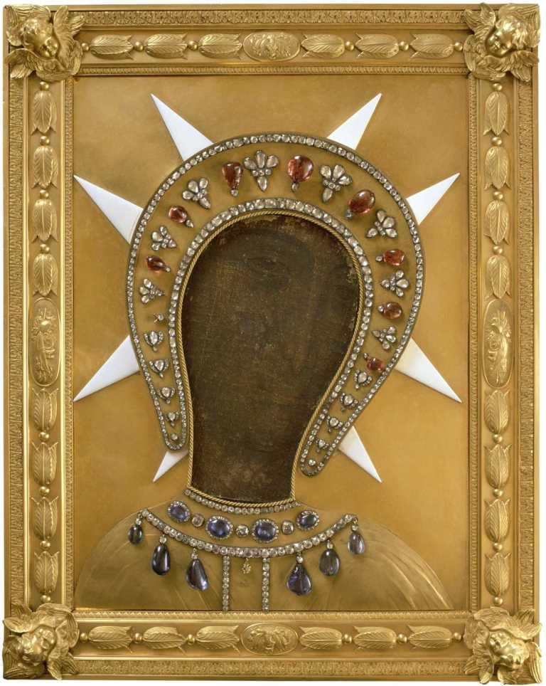 Our Lady of Philerme icon, an icon that is kept in the Blue Chapel of the National Museum of Montenegro. The icon has been declared a national treasure of Montenegro.